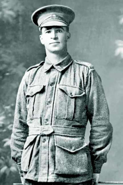 Photograph of 1153 Corporal Lawrence Carthage Weathers VC, 43rd Battalion, Australian Imperial Force.